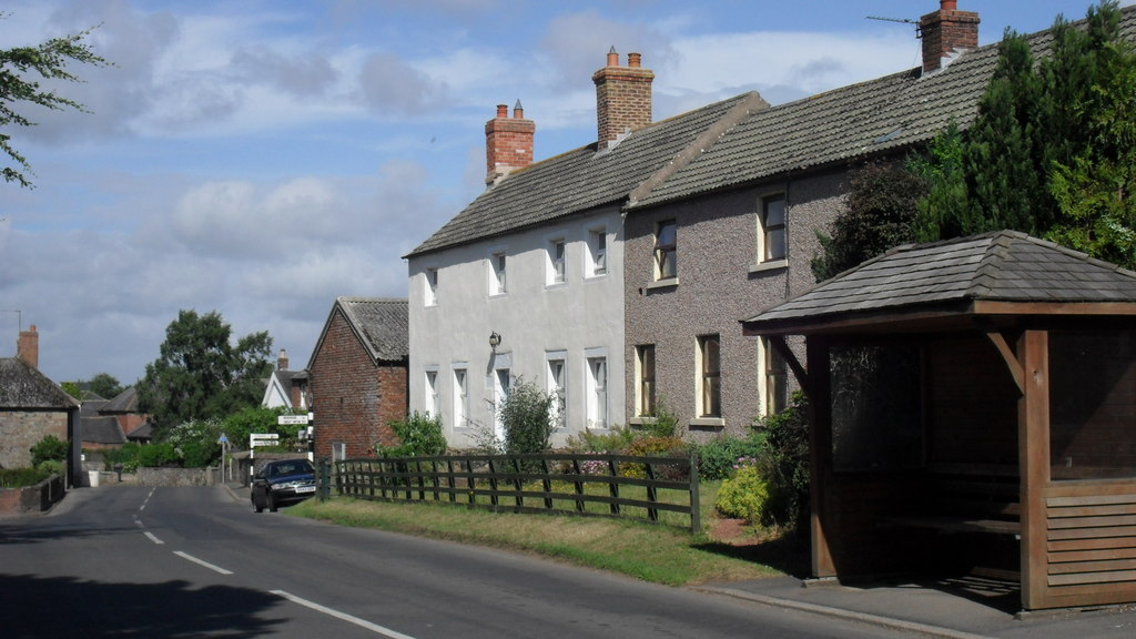 Houses at Burgh by Sands